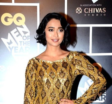 Sayani Gupta at the red carpet of GQ Men of The Year Awards 2016